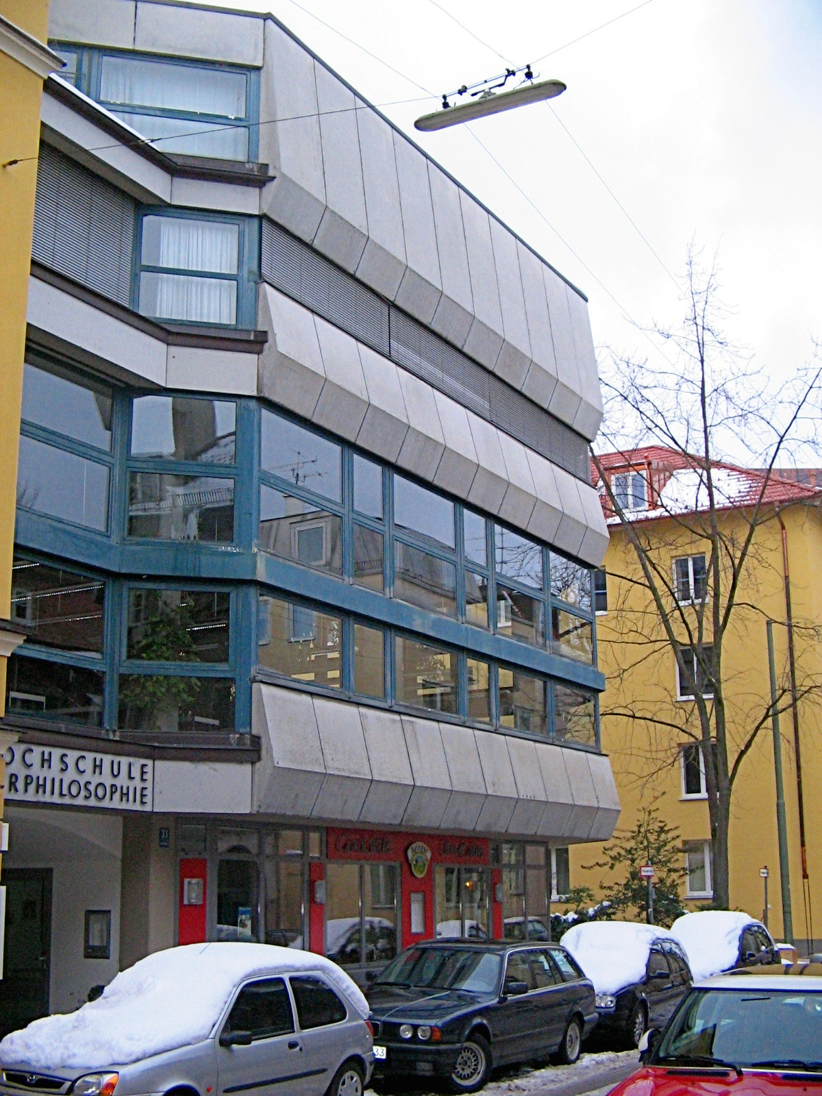 Jesuit University of Philosophy in Munich, Bavaria.